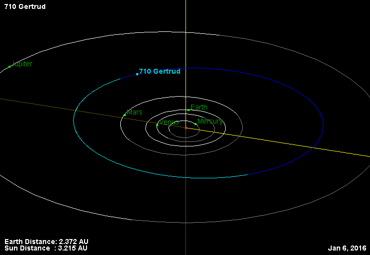 Orbit of asteroid 710 Gertrud and his location in Solar system